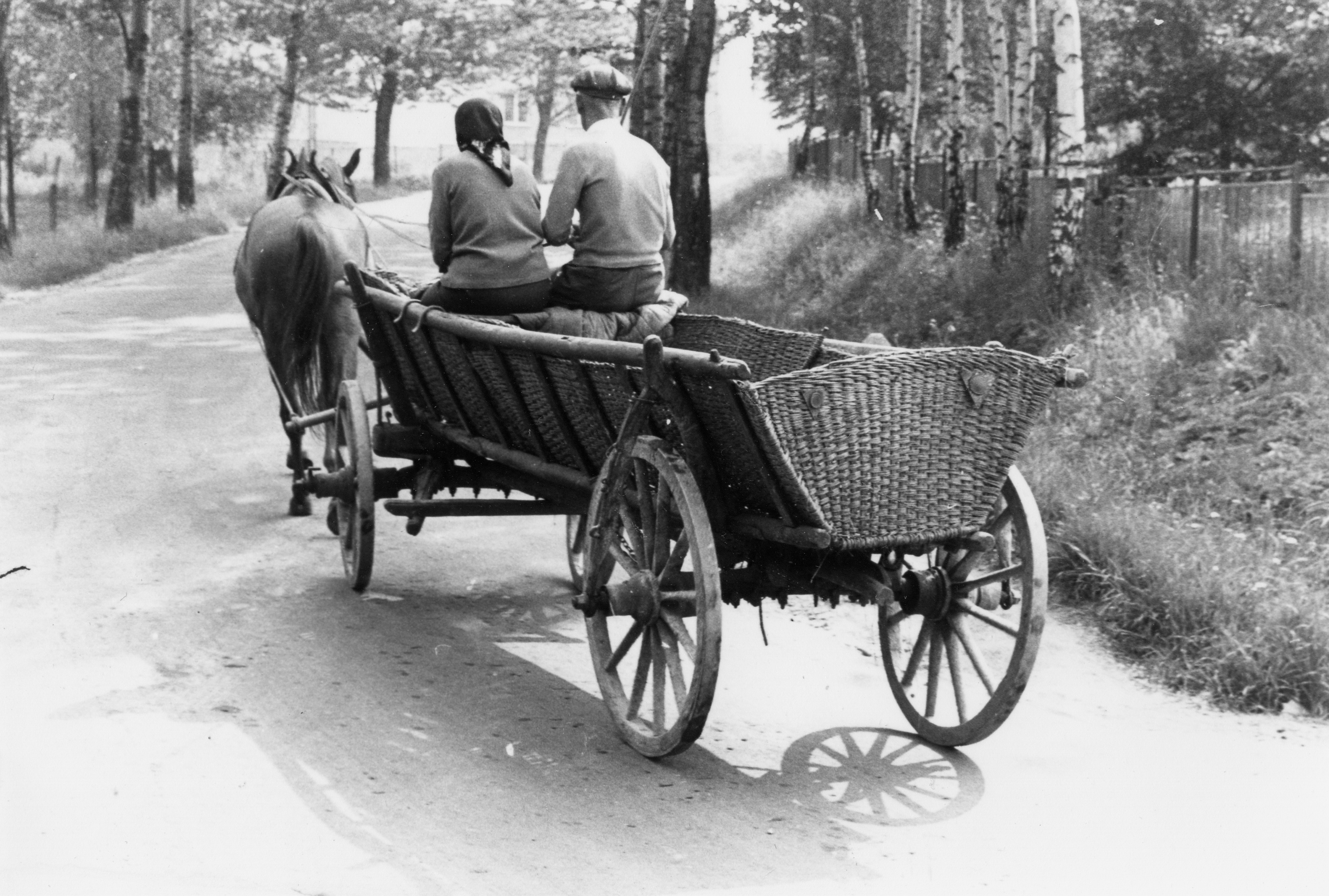 Carriage in Poland in 1975